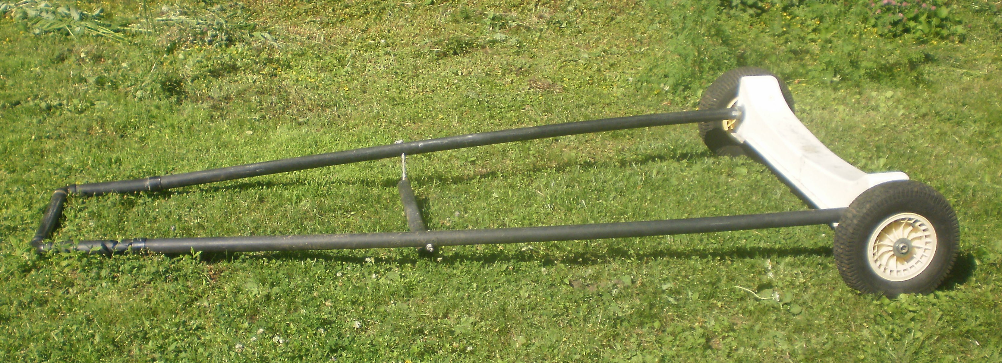 Vinage lauch dolly for a Laser I sailboat